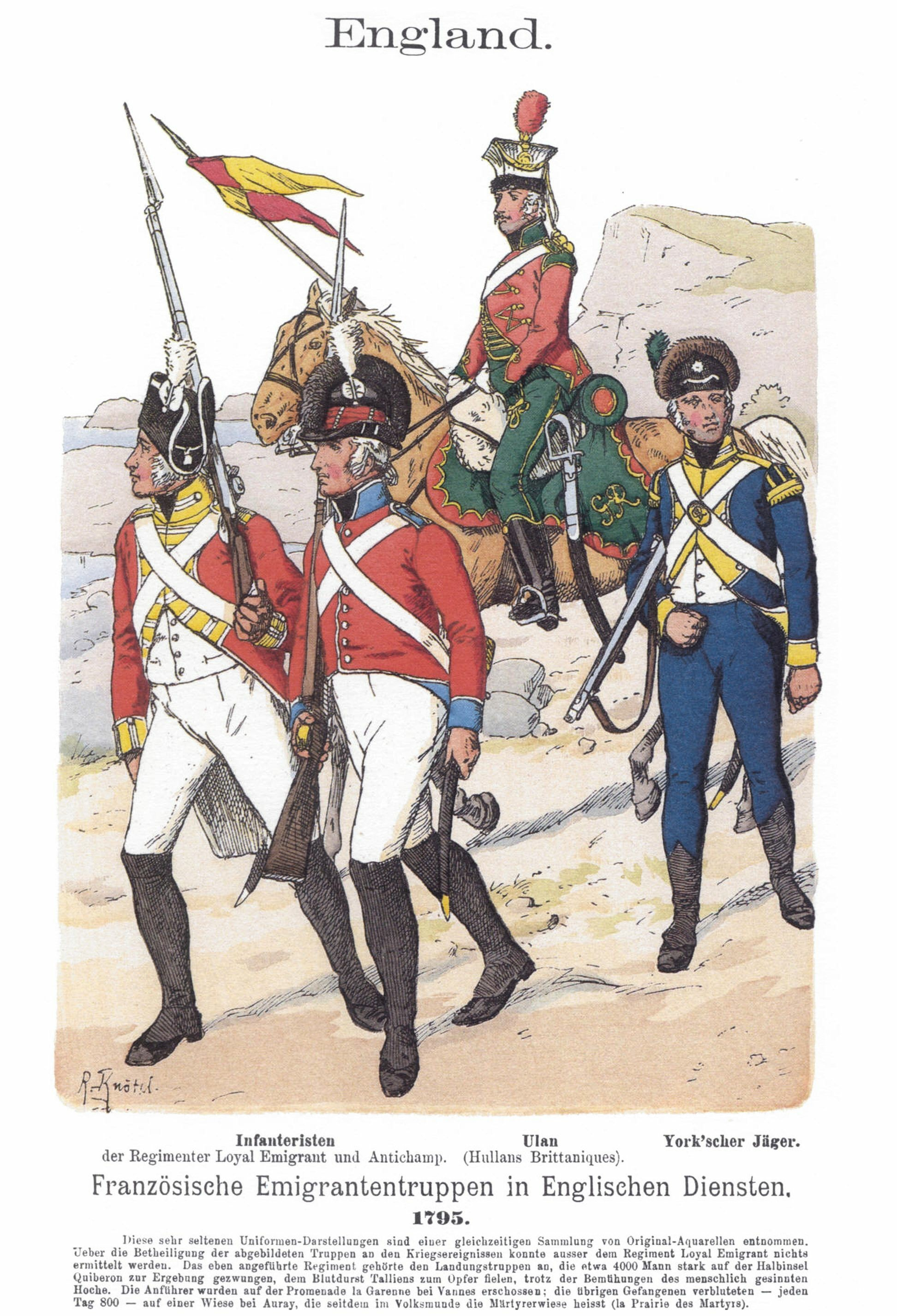 England. Französische Emigranten-Truppen in englischen Diensten. 1795